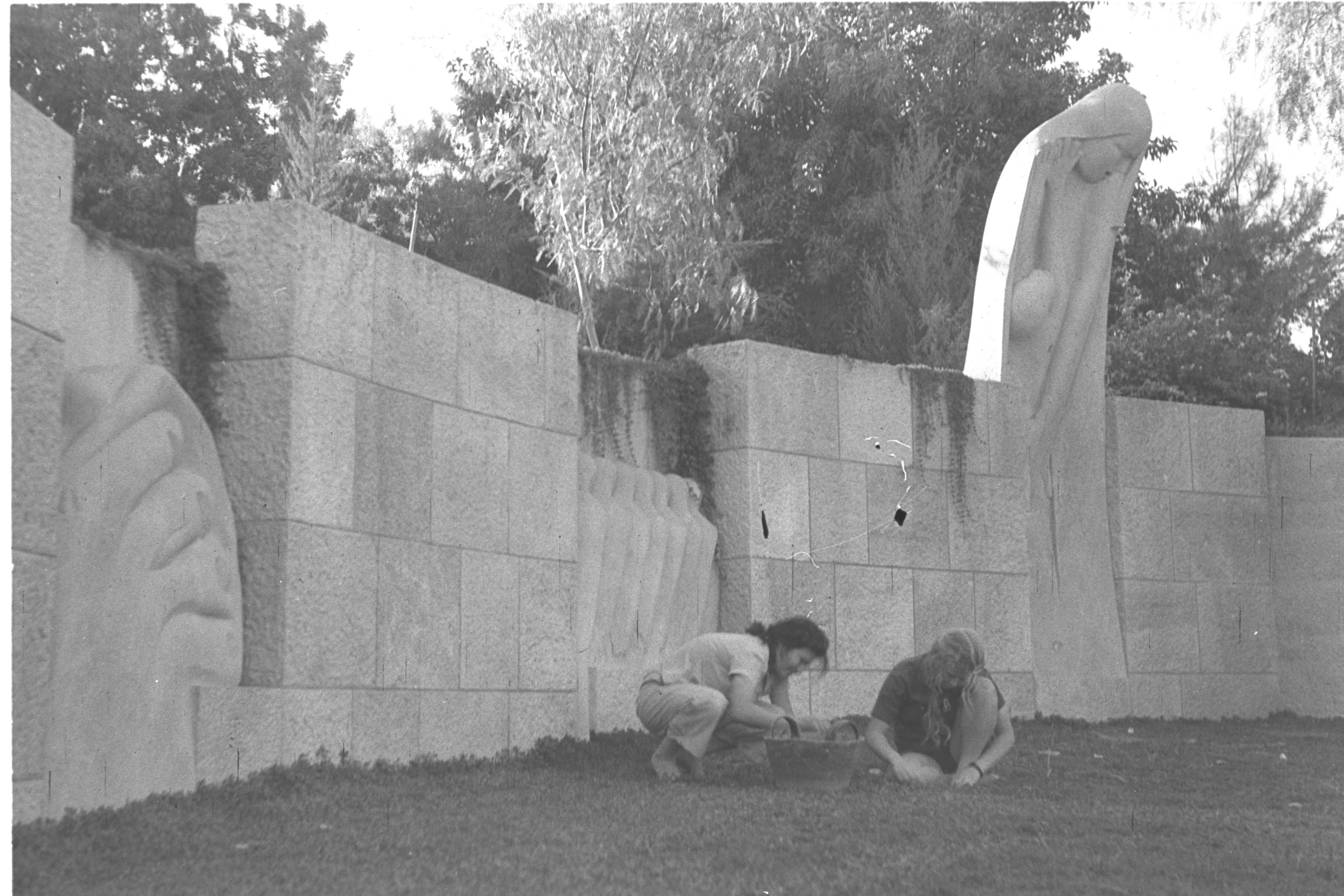 MEMORIAL MONUMENT IN MEMORY OF 6-MILLION JEWS OF EUROPE, KIBBUTZ MISHMAR HA'EMEK